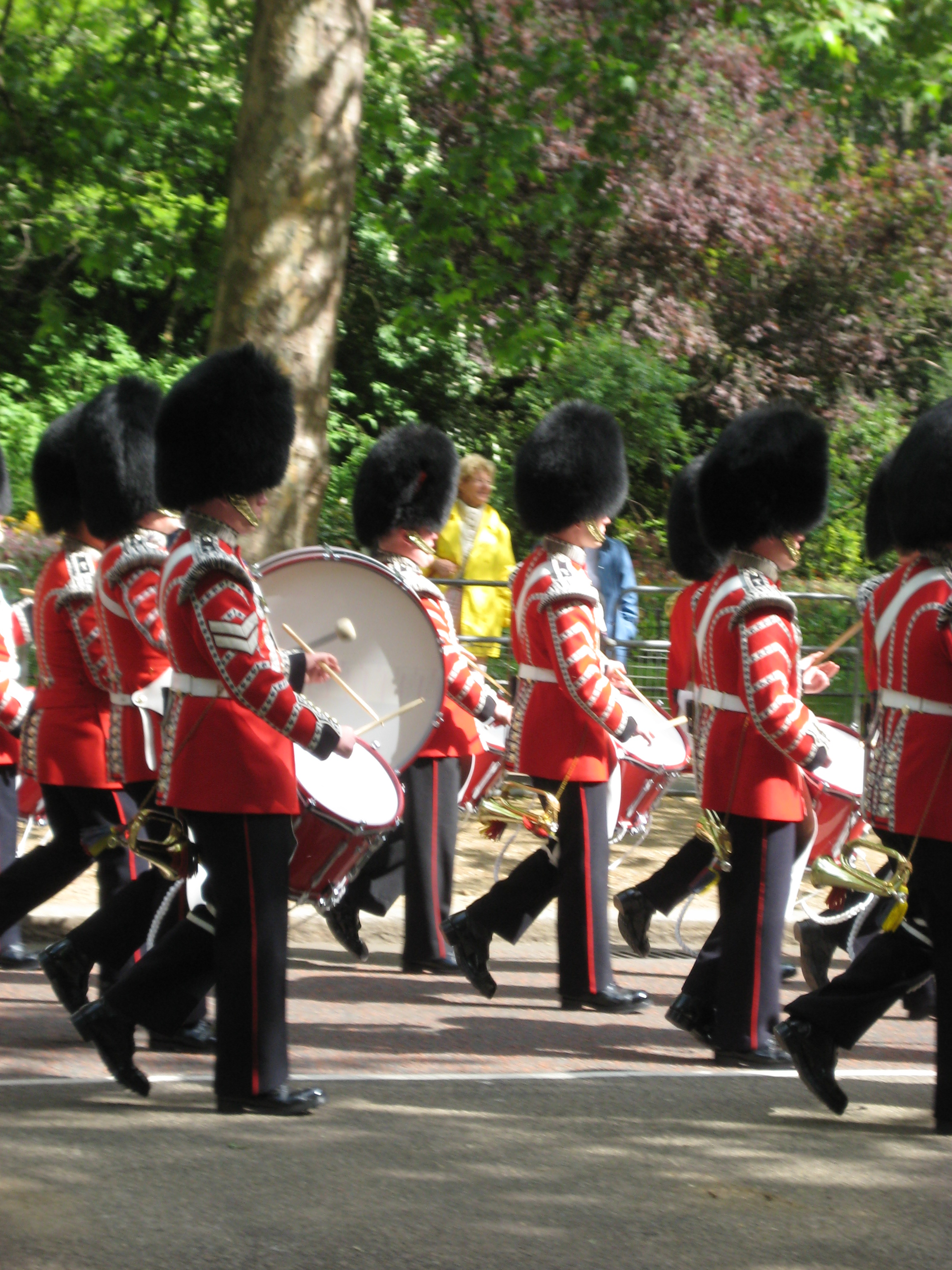 Drummers of the Irish Guards Corps of Drums, marching and playing